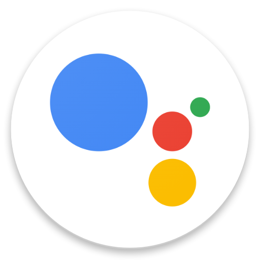 The logo from the Google Assistant